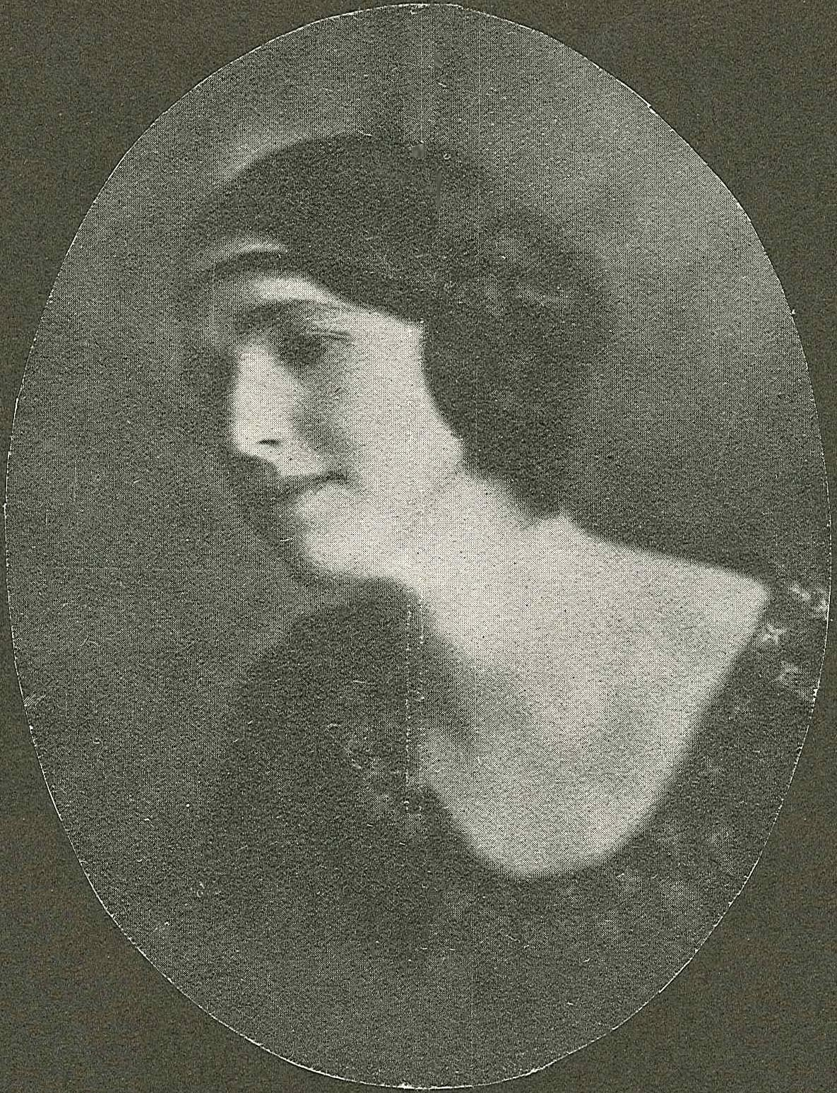 Gabo Falk (1899-1975), Swedish dancer and dance teacher.